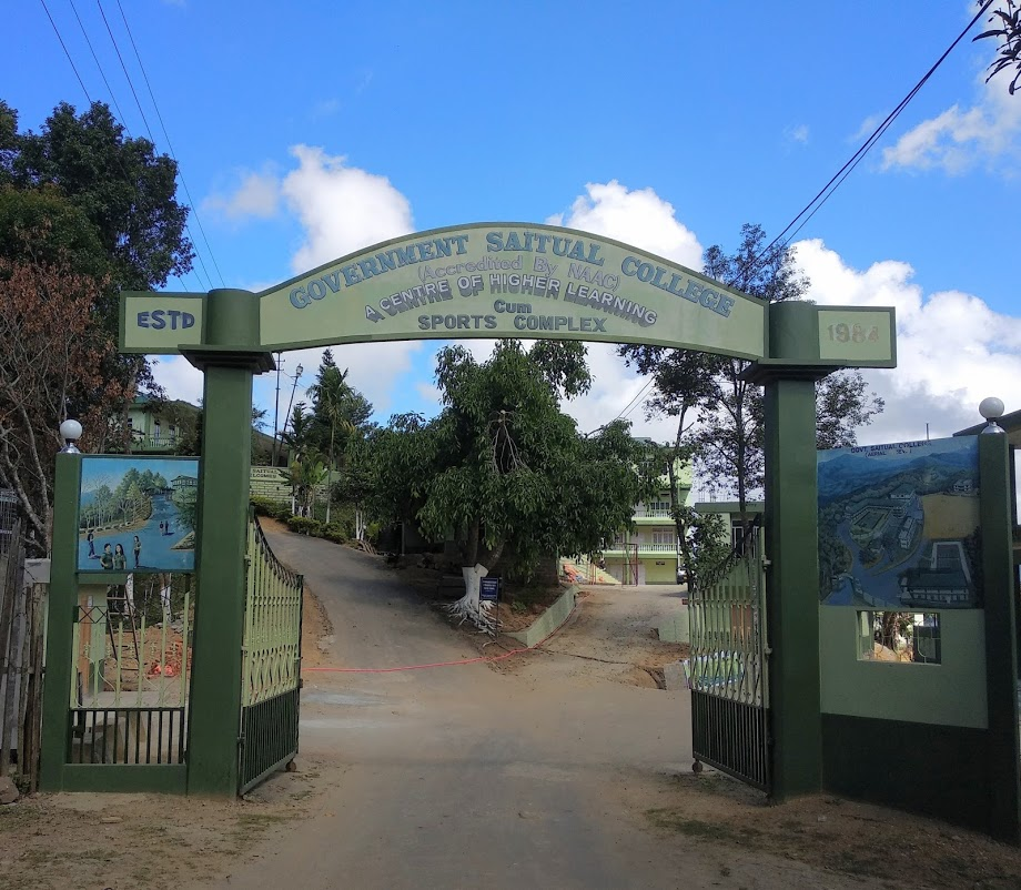 Saitual college Entrance